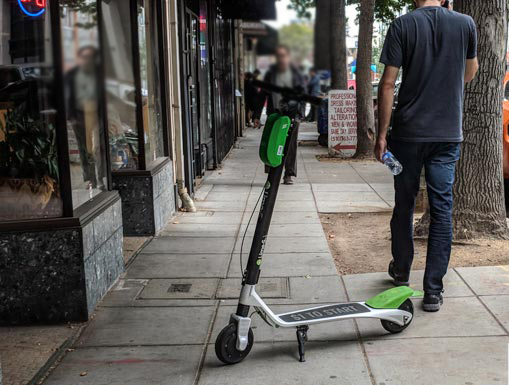 A Lime Scooter Blocks The Sidewalk In Downtown Oakland, California